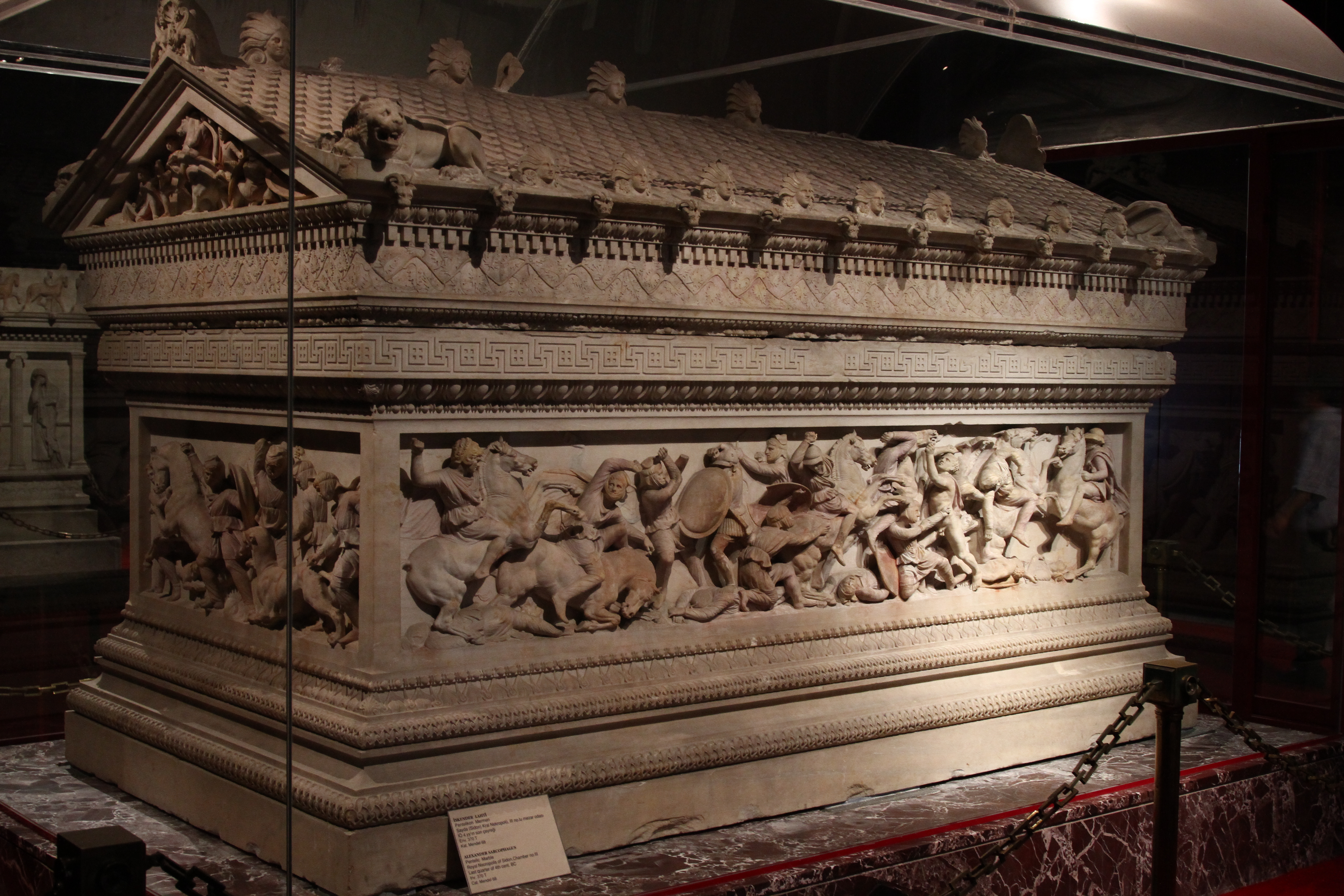 sarcophagus